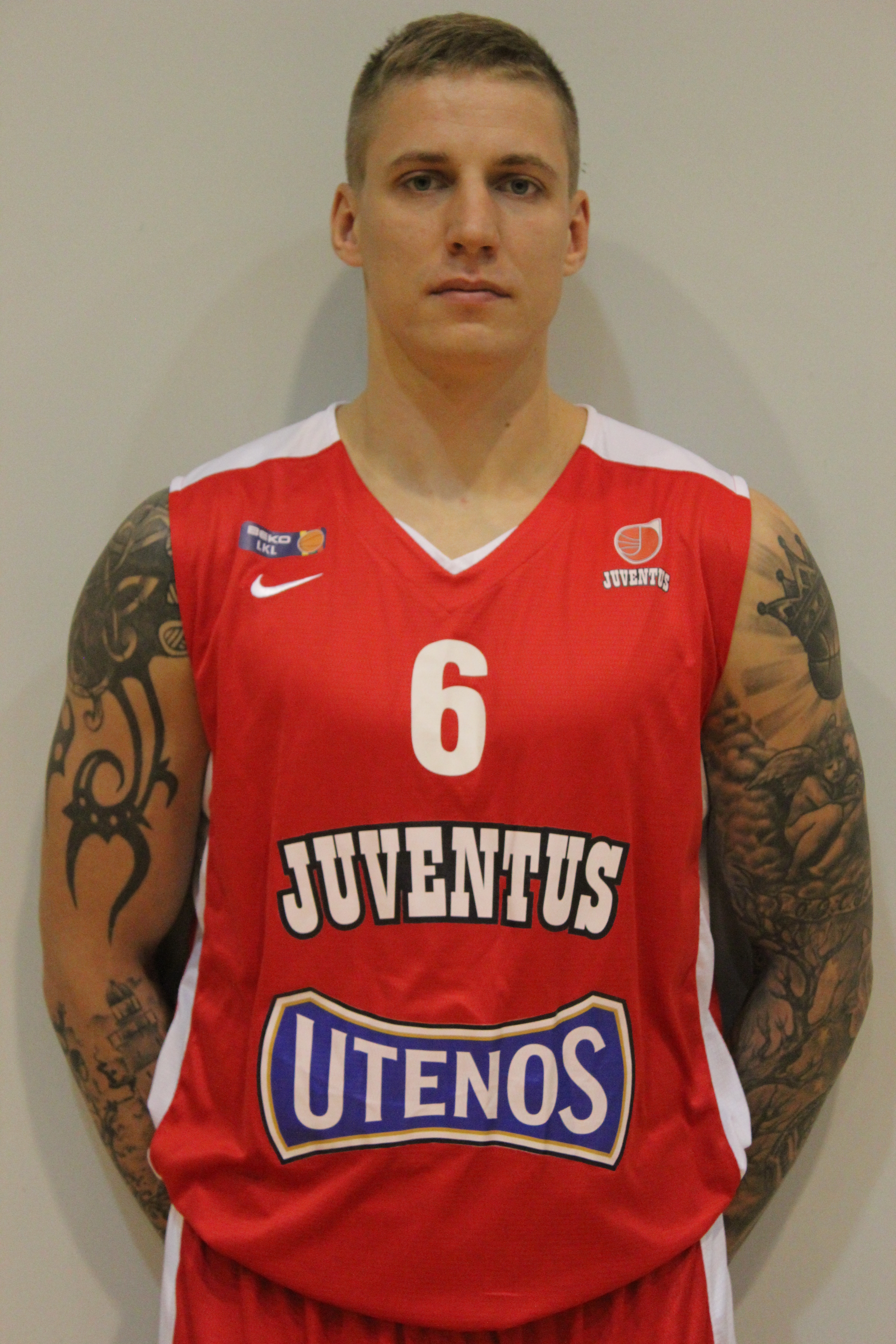 Photo of BC Juventus player Arvydas Šikšnius during the 2014-15 season.